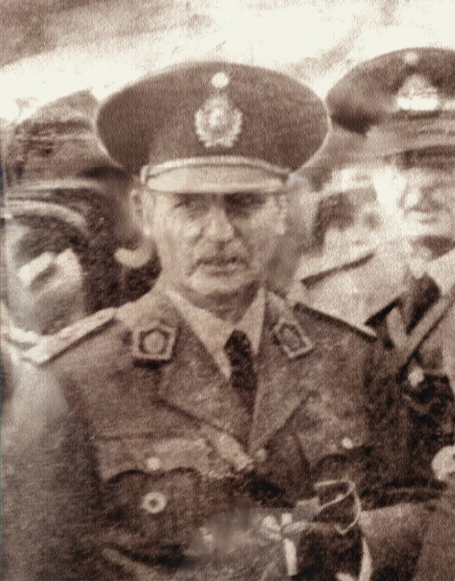 El General Arturo Rawson Corvalán en la Plaza de Mayo el día del golpe de estado, 4 de junio de 1943.